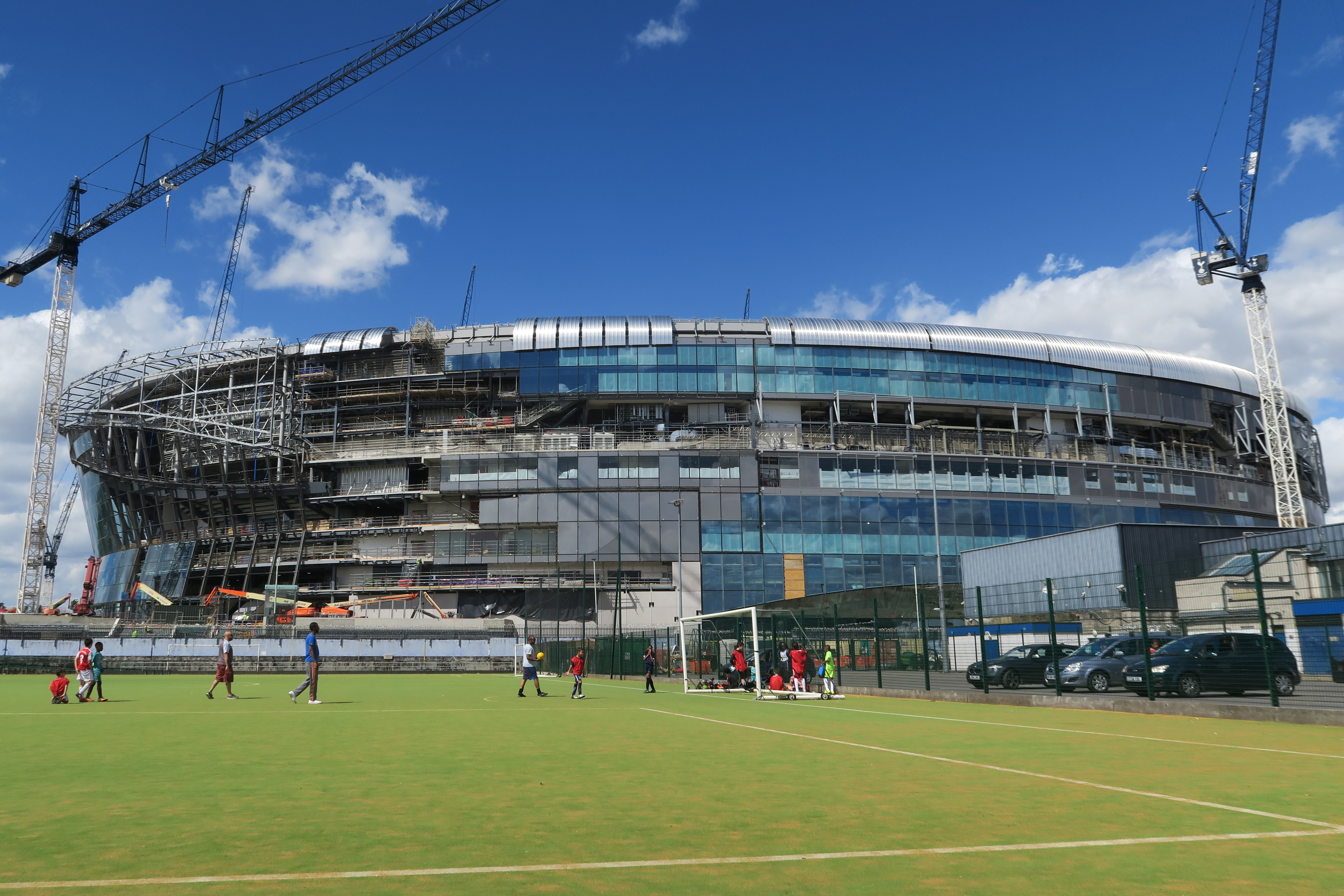 View of Tottenham Hotspur Stadium under construction from the east in July 2018